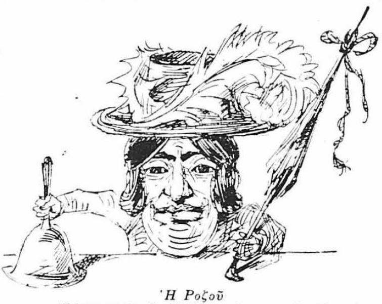 Anthousa de Roujoux, one of the several satyrical sketches from the newspaper To Asty (Το Άστυ), drawn by Themos Anninos